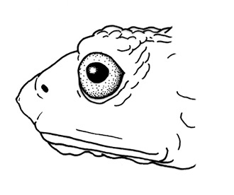 Head shape in lateral view of Osornophryne antisana male, QCAZ 48209.